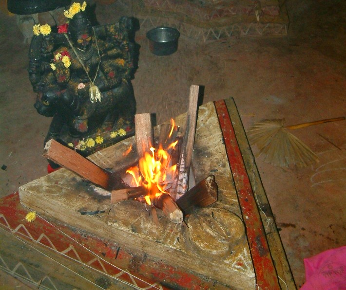 A Srividya homa (fire sacrifice) to the Goddess, with the hearth in the shape of an inverted triangle, an ancient symbol of the Devi. South India, 2007.